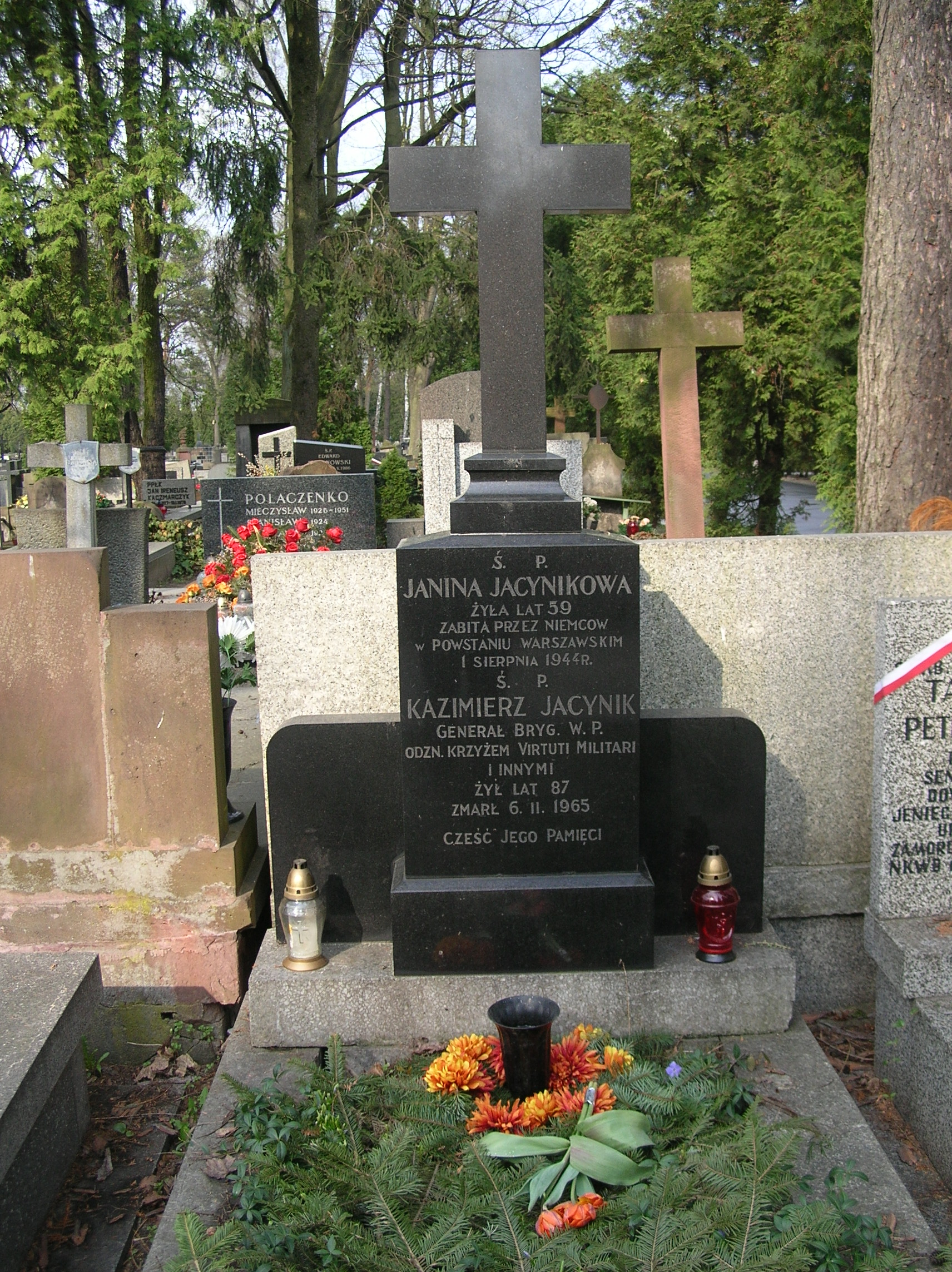 Kazimierz Jacynik tomb